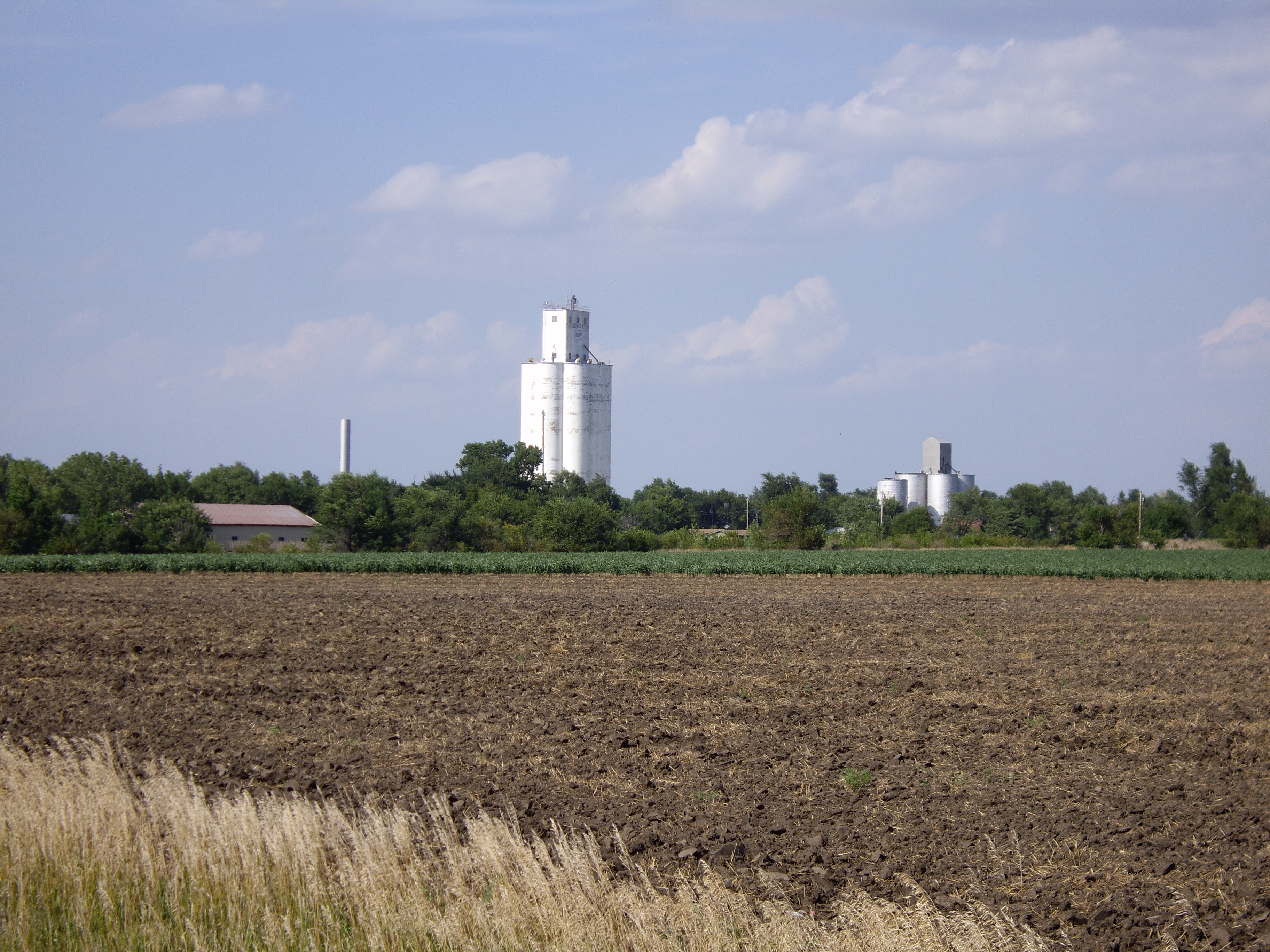 City Skyline, Lehigh, Kansas, 67073, USA. Looking north-northeast from State Highway 168. Photo by Steve Meirowsky on August 7, 2010.